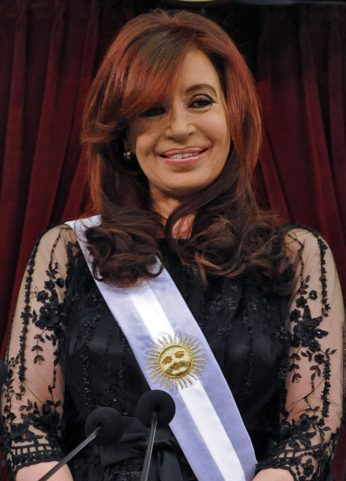 President Cristina Fernández de Kirchner at her second Inauguration day.